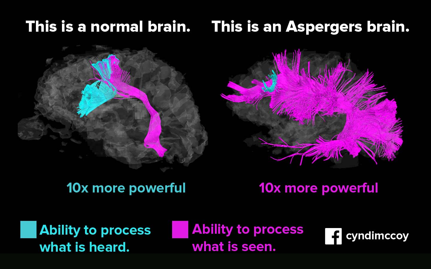 A comparison of the activity between (Temple Grandin's) Asperger brain and a neurotypical brain. Neurotypicals have 10x more powerful Broca's Area. So neurotypicals have better social skills as mimicry, interaction and communication. And also better motor skills as object grasping and manipulation. Then Aspergers are more awkward, clumsy and eccentric, have poor social context comprehension and are less influenced by social environment. However Aspergers have 10x more powerful brain's Brodmann areas related with visual-spatial intelligence. That's why Aspergers score higher on Raven's Progressive Matrices IQ tests. And why Aspergers can catch details with higher resolution. An advantage to achieve more in areas such as Engineering, Design, Architecture, Physics and Math. Limbic lobe is well active in both brain types. The picture is based on a Research done by Dr. Walter Schneider from Pittsburgh University.